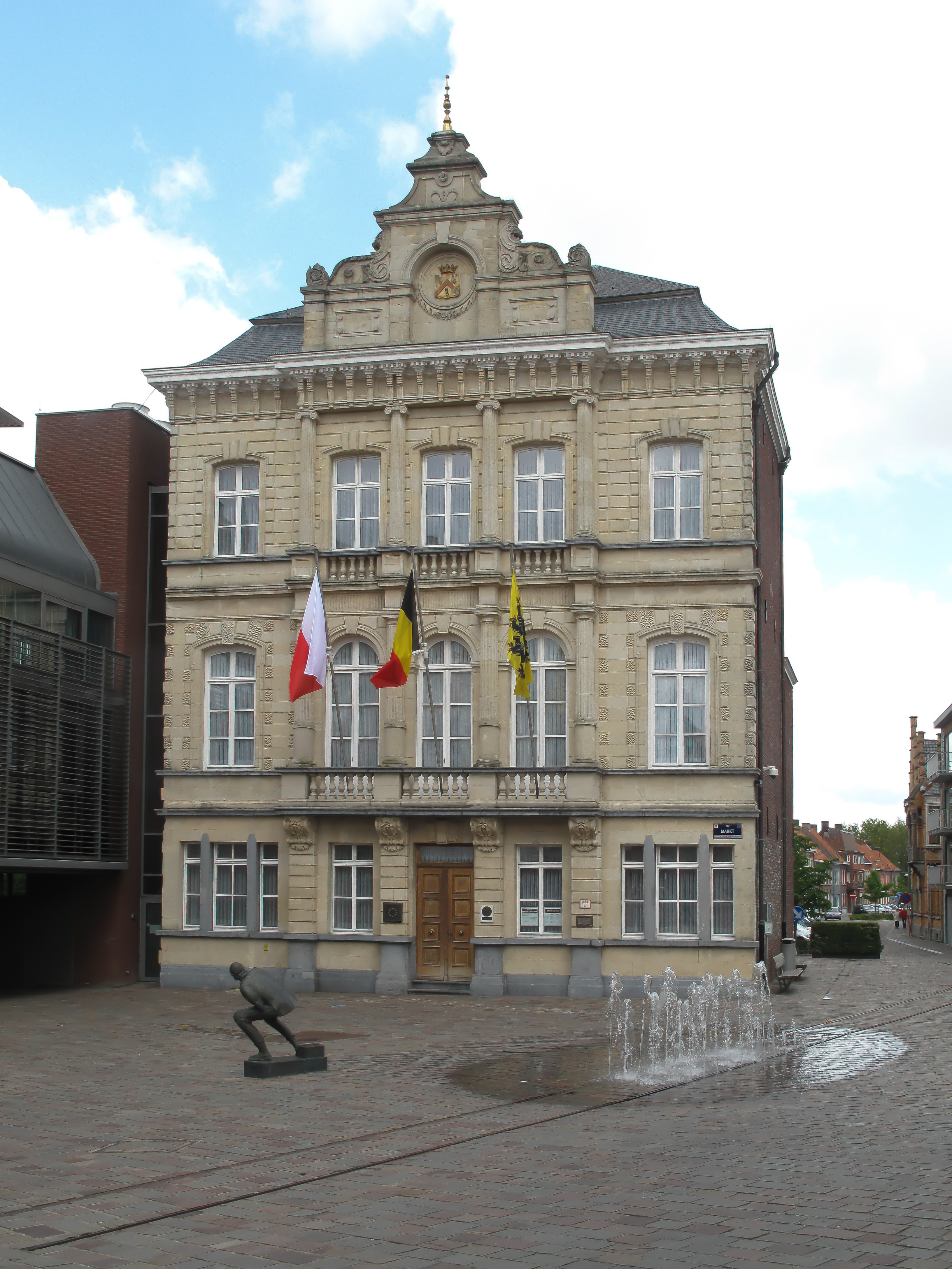 Tielt, monumental house near Belfort